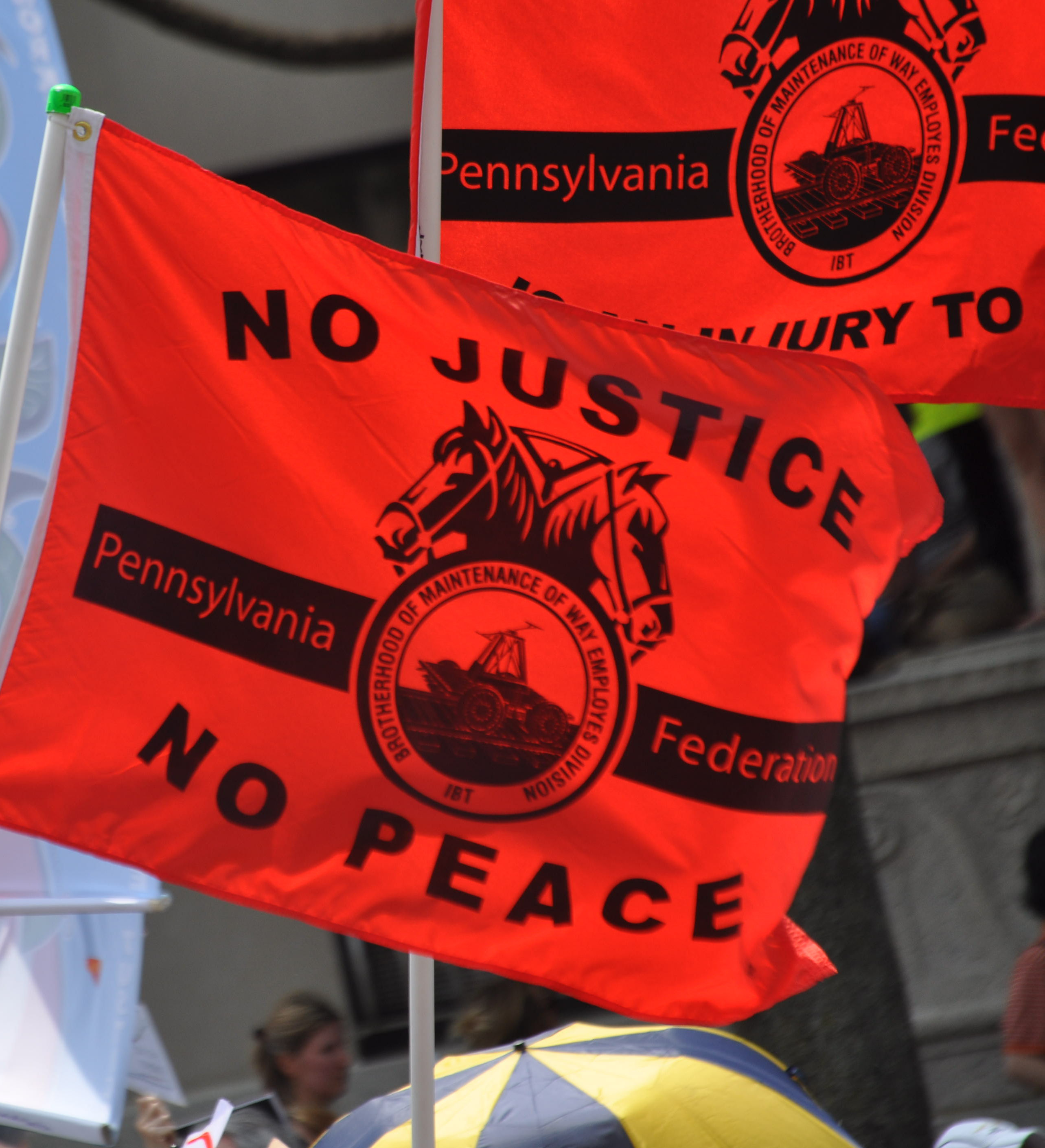 Climate March 0545